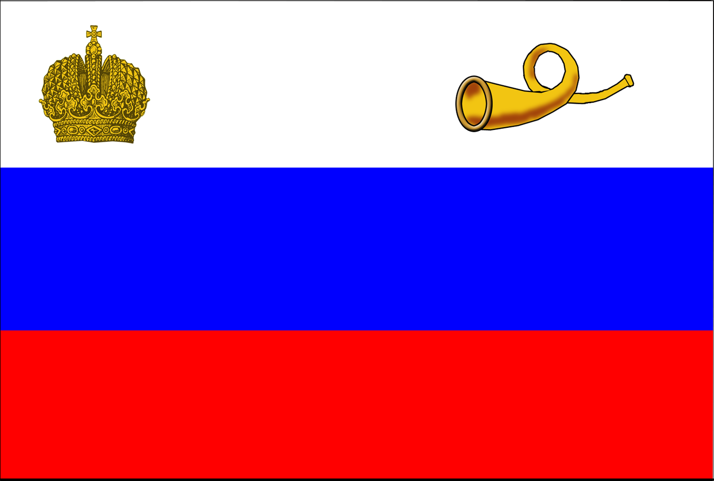 Russian Steam Navigation and Trading Company's flag